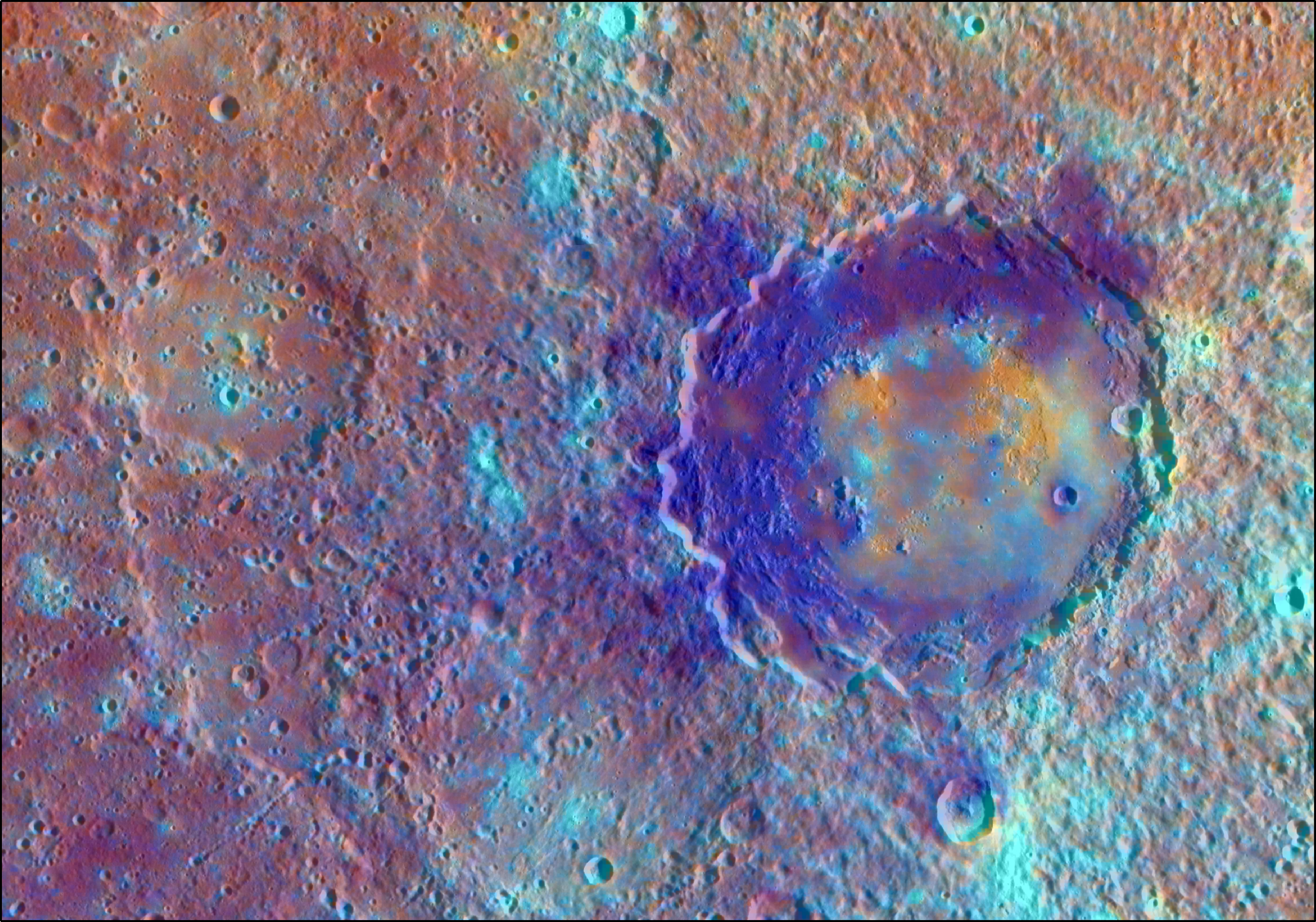 Instrument: Mercury Dual Imaging System (MDIS) Latitude: -9.0° Longitude: 17.3° E Scale: Derain peak-ring basin has a diameter of 167 km (104 miles) Of Interest: In this enhanced color view of the peak-ring basin Derain, the different colors accentuate the different rocks associated with the basin. The dramatic dark blue patches are comprised of low reflectance material perhaps excavated from depth by the impact event that formed the basin. The smooth, interior volcanic fill of the basin, in addition to the large pits on the floor of Derain, are brighter and redder. This view was created by draping a color composite from the MDIS Wide Angle Camera (WAC) over an MDIS monochrome Narrow Angle Camera (NAC) image mosaic. The WAC enhanced color image was created with the following image channels: red = Principal Component 2, green = Principal Component 1, and blue = 430 nm to 1000 nm band ratio. The MESSENGER spacecraft is the first ever to orbit the planet Mercury, and the spacecraft's seven scientific instruments and radio science investigation are unraveling the history and evolution of the Solar System's innermost planet. In the mission's more than four years of orbital operations, MESSENGER has acquired over 250,000 images and extensive other data sets. MESSENGER's highly successful orbital mission is about to come to an end, as the spacecraft runs out of propellant and the force of solar gravity causes it to impact the surface of Mercury in April 2015.